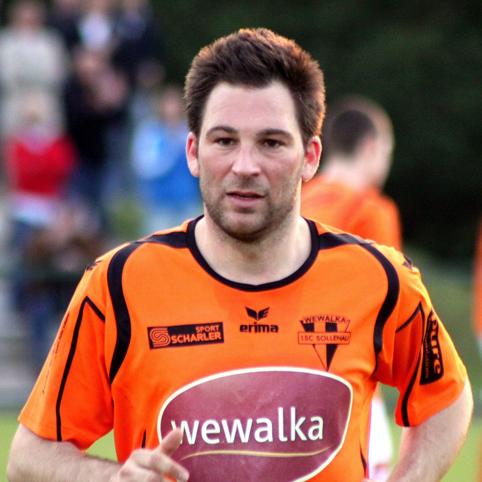 1. SC Sollenau vs. SV Horn at 2012-05-25 in Sollenau 3:1 (3:0). – The photo shows Philipp Katzler (1. SC Sollenau). Object location47° 54′ 04.4″ N, 16° 14′ 35.78″ E